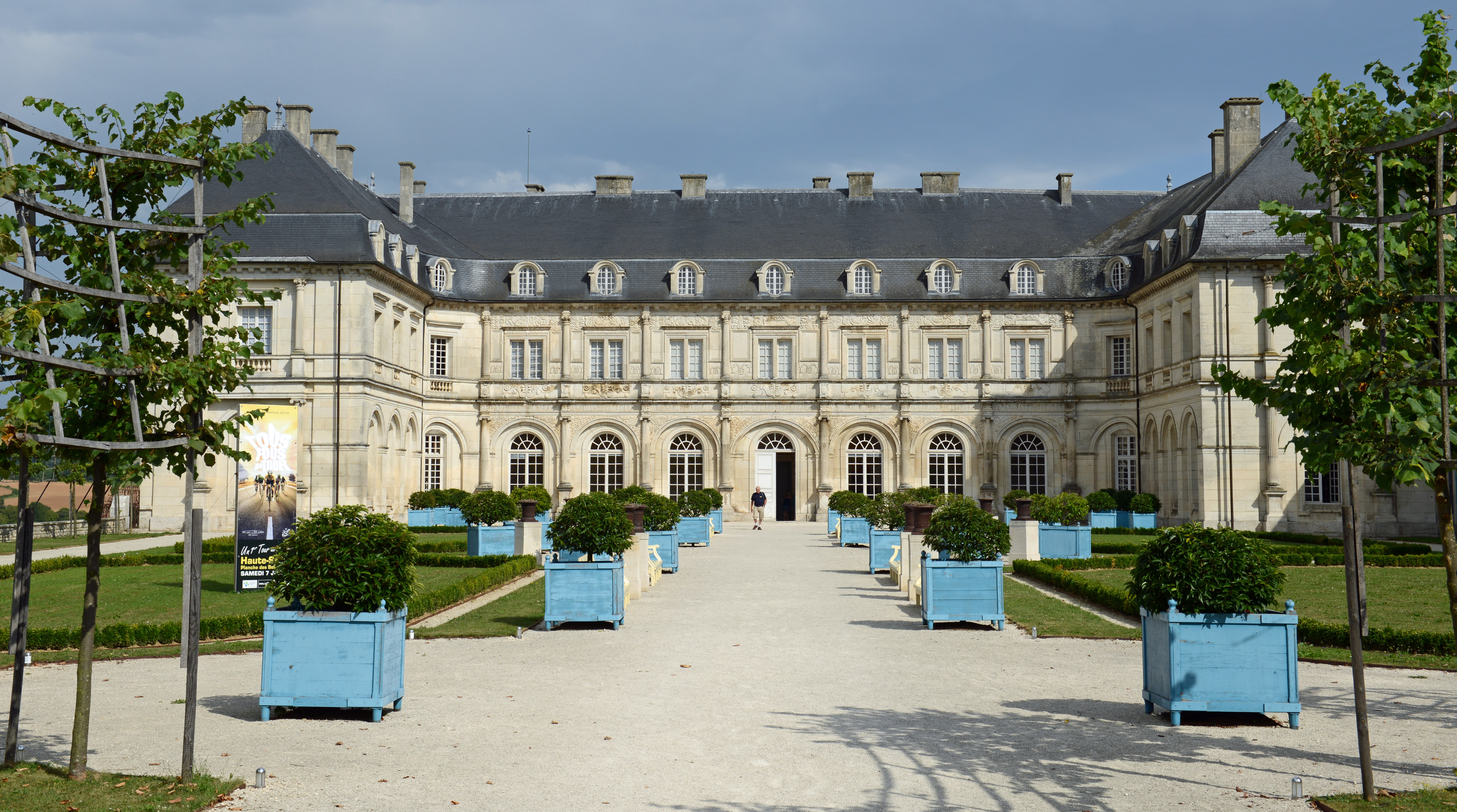 Champlitte Castle France